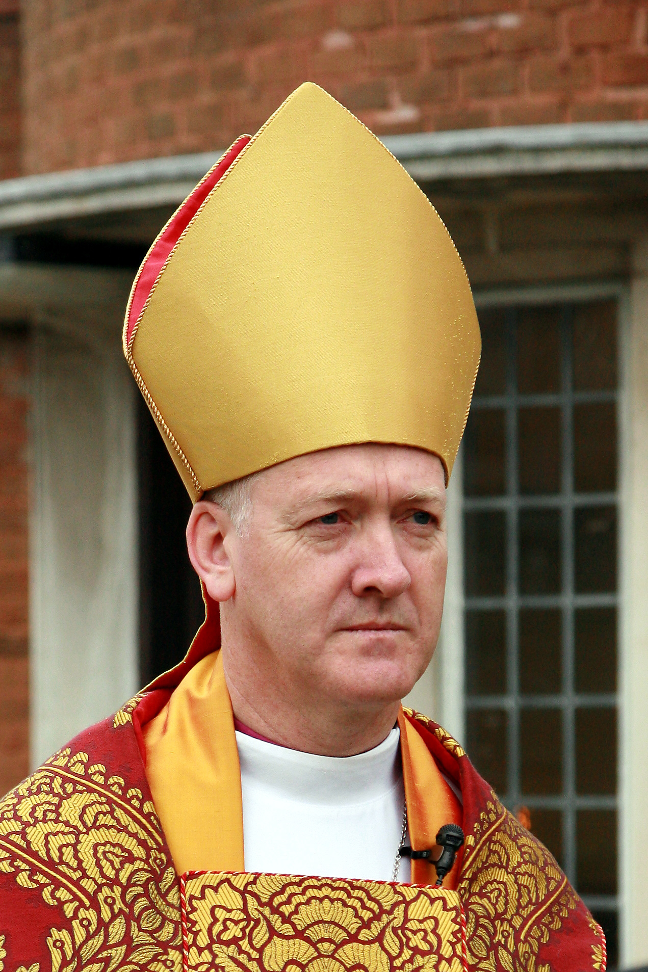 St George's Church, Shirley, Croydon, England. Celebrating the 70th anniversary of the dedication of the church in November 2007: the Rt Revd Nicholas (Nick) Baines, Bishop of Croydon, makes his way to the church for the Parish Eucharist. [IMG 1867a]